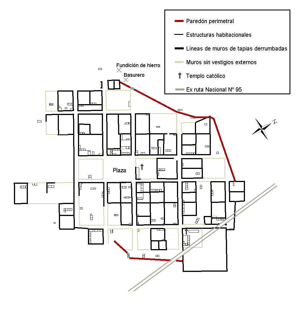 A map showing Ruinas del km 75 in Chaco province, Argentina. These ruins correspond to Concepción del Bermejo city, which existed between 1585 and 1632.